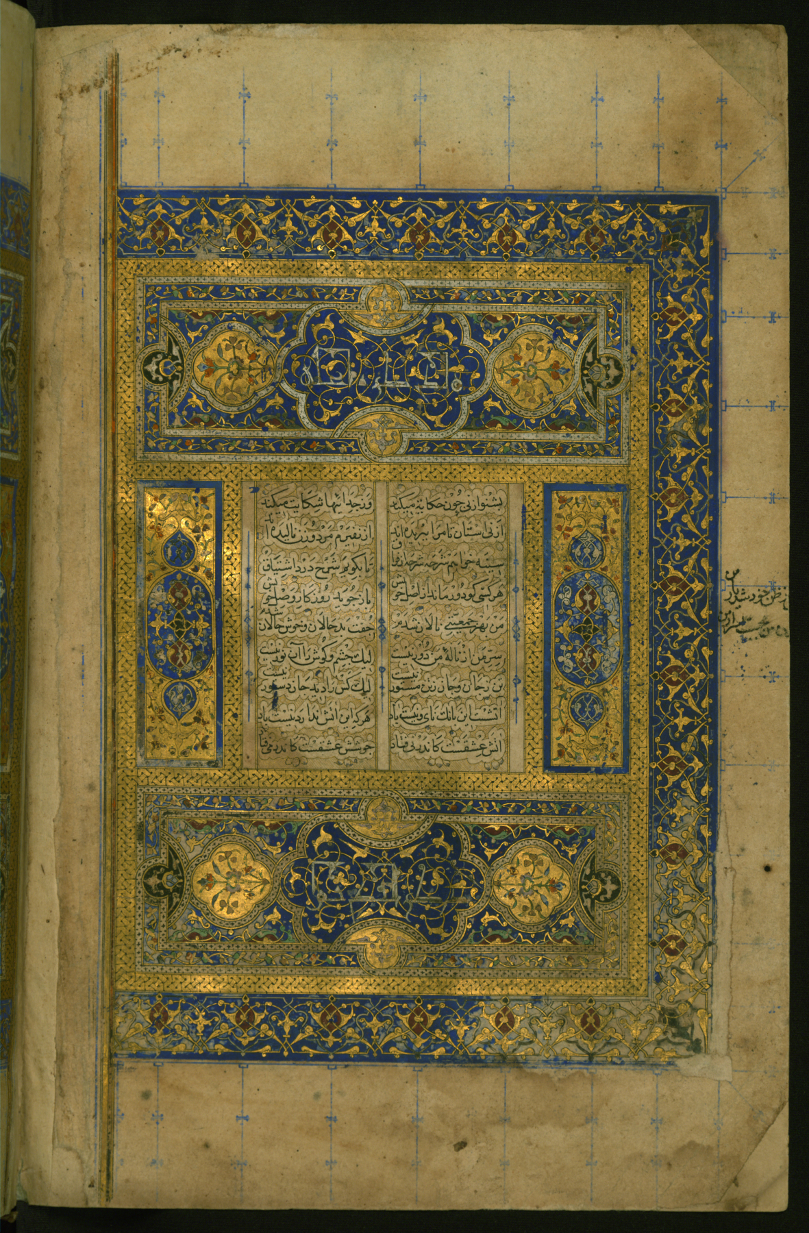 This is the right side of a double-page illuminated frontispiece from Walters manuscript W.625 with inscriptions in decorated New Abbasid (Broken Cursive) Style of the 1st book (daftar) of the Collection of poems (Masnavi-i ma'navi).